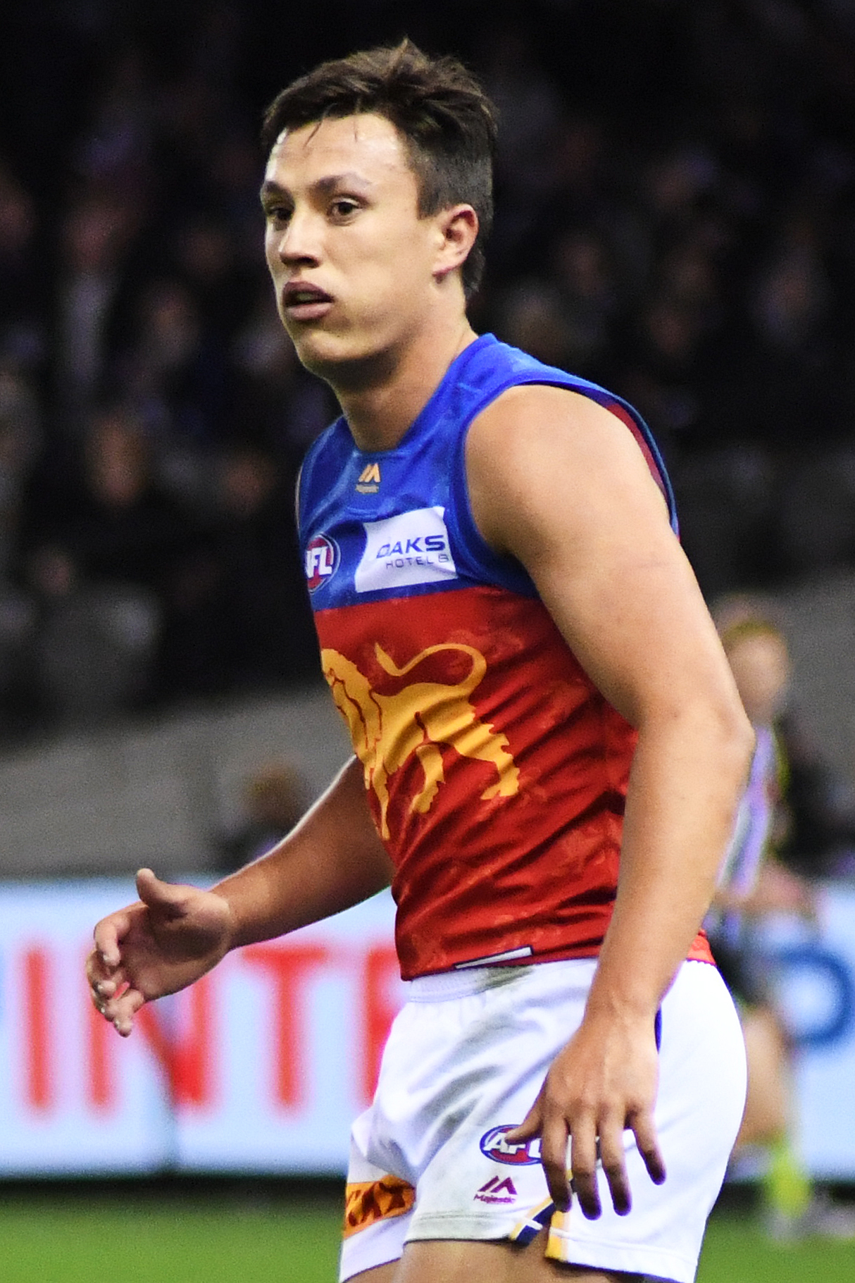 Hugh McCluggage of Brisbane during the 2018 AFL round 21 match between Collingwood and Brisbane at Etihad Stadium on Saturday, 11 August 2018 in Melbourne, Victoria.